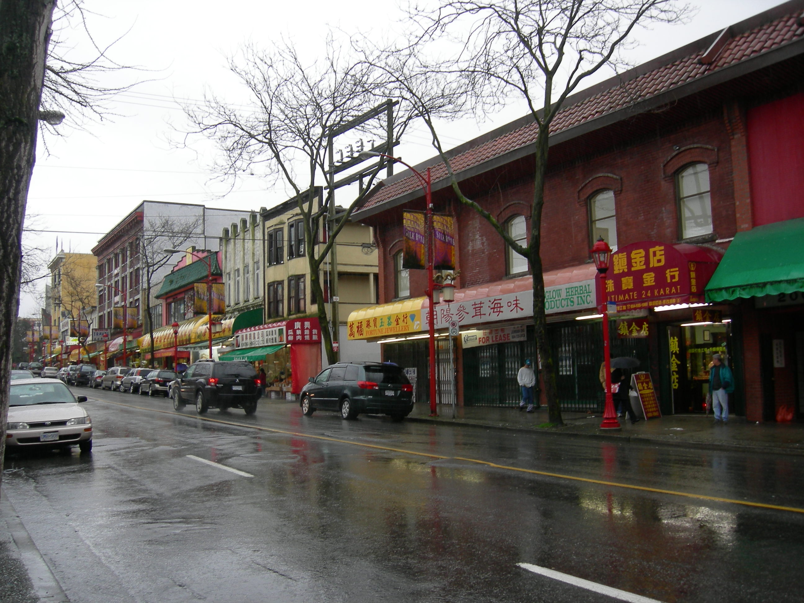 Chinatown, Vancouver, British Columbia.